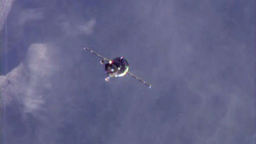 Progress final approach under way before reaching Pirs docking compartment for 6-month stay @Space_Station.